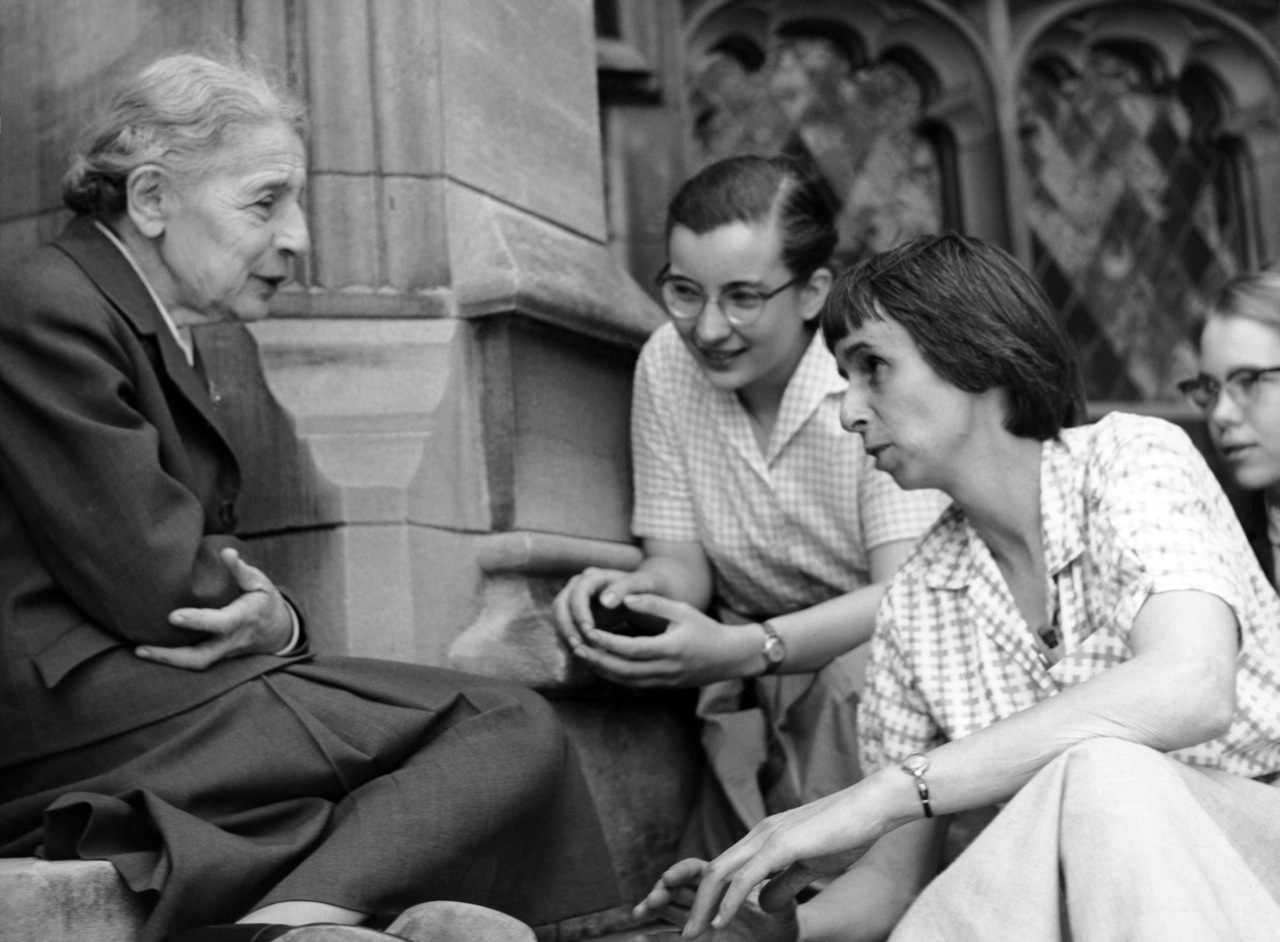 Physicist Lise Meitner with students (Sue Jones Swisher, Rosalie Hoyt and Danna Pearson McDonough) on the steps of the chemistry building at Bryn Mawr College. Courtesy of Bryn Mawr College. (April 1959)